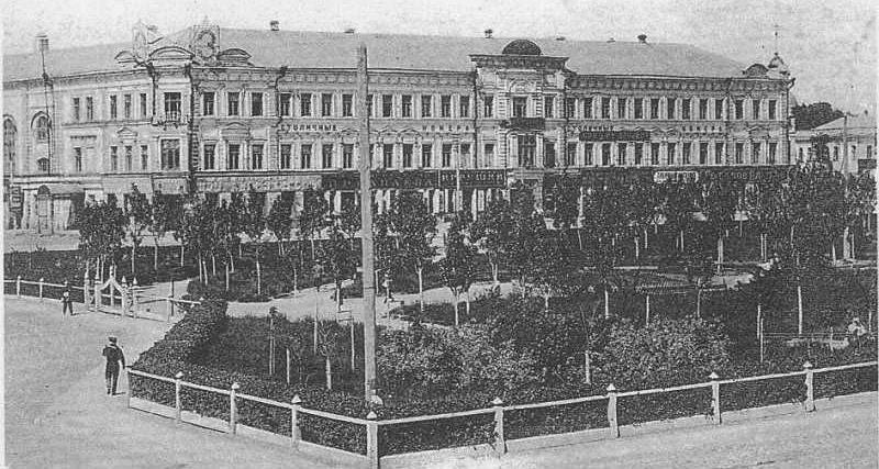 The hotel "Stolichnye nomera" (Metropolitan Rooms) in the Tsarist city of Tsaritsyn. Located in the renamed—present day city of Volgograd.